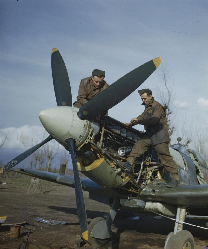 Aircraftman Jim Birkett and Leading Aircraftman Wally Passmore working on the portside Merlin engine of a Supermarine Spitfire of No 241 Squadron, Royal Air Force on a chilly day in Southern Italy. Also of note is the Conformal fuel tank under the belly, wrapping around the carburettor air intake.